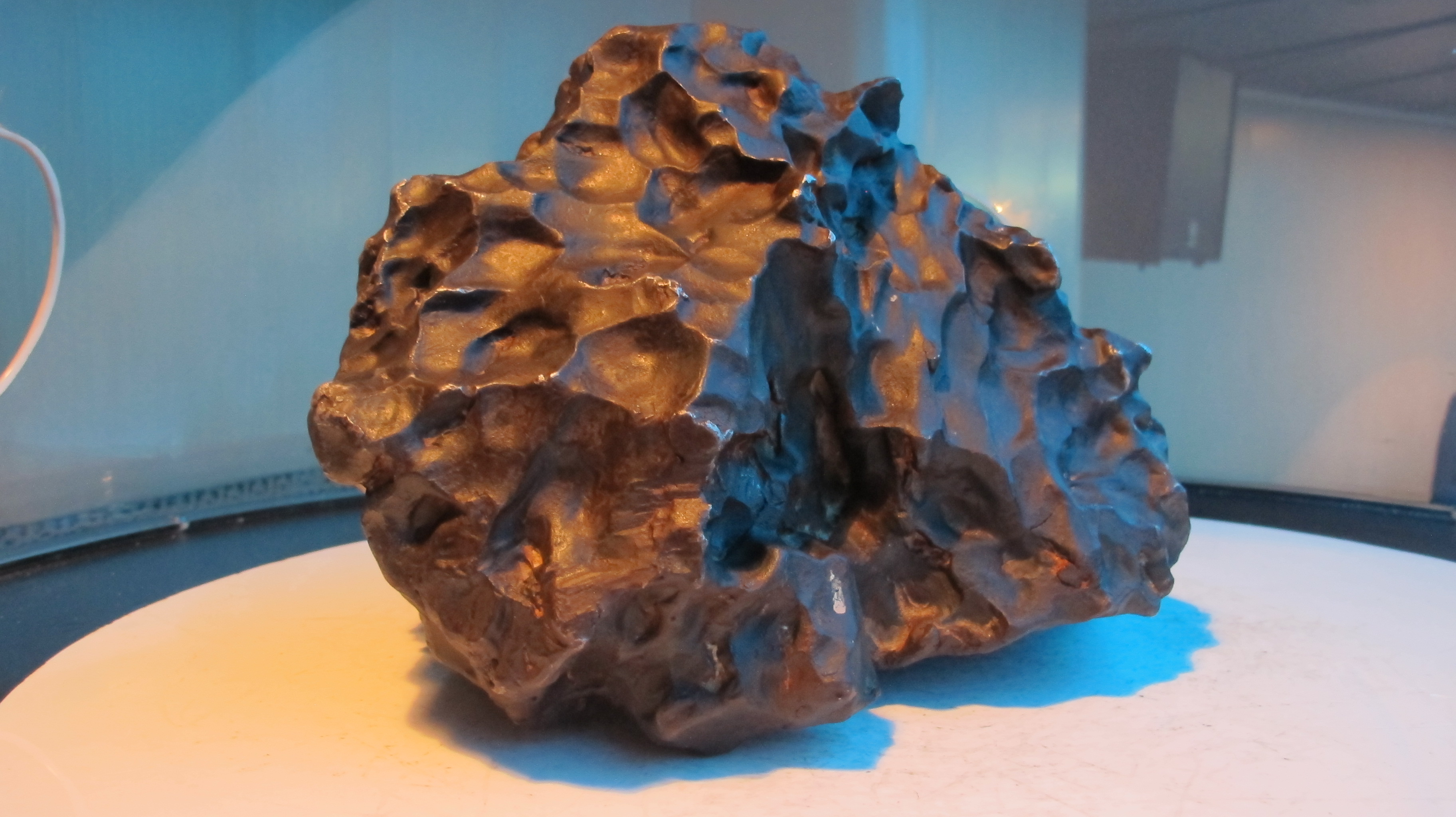 Wikiexpedition to Kaluga 2016-06-11.